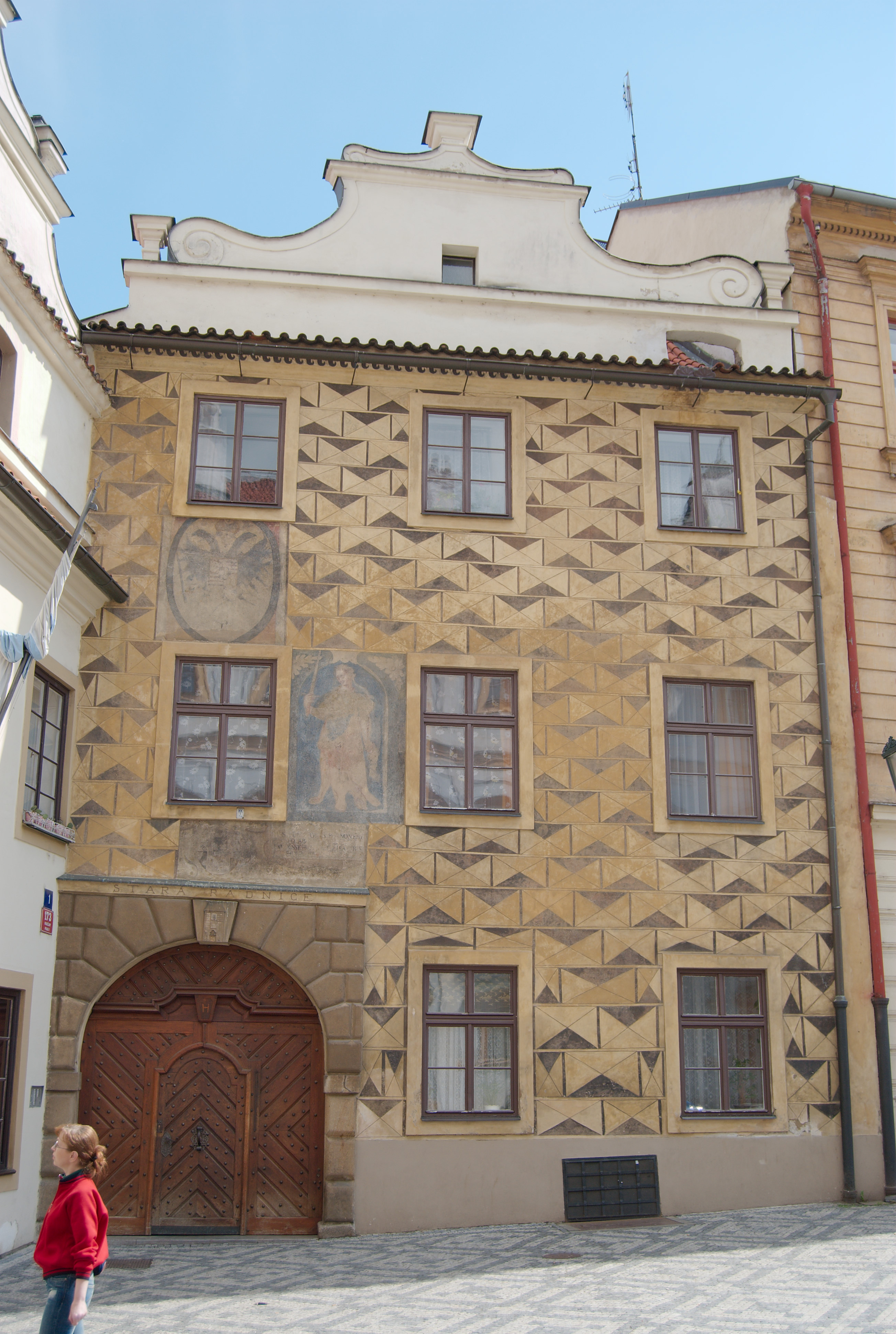 Prague-Hradčany - Former townhall of Hradčany